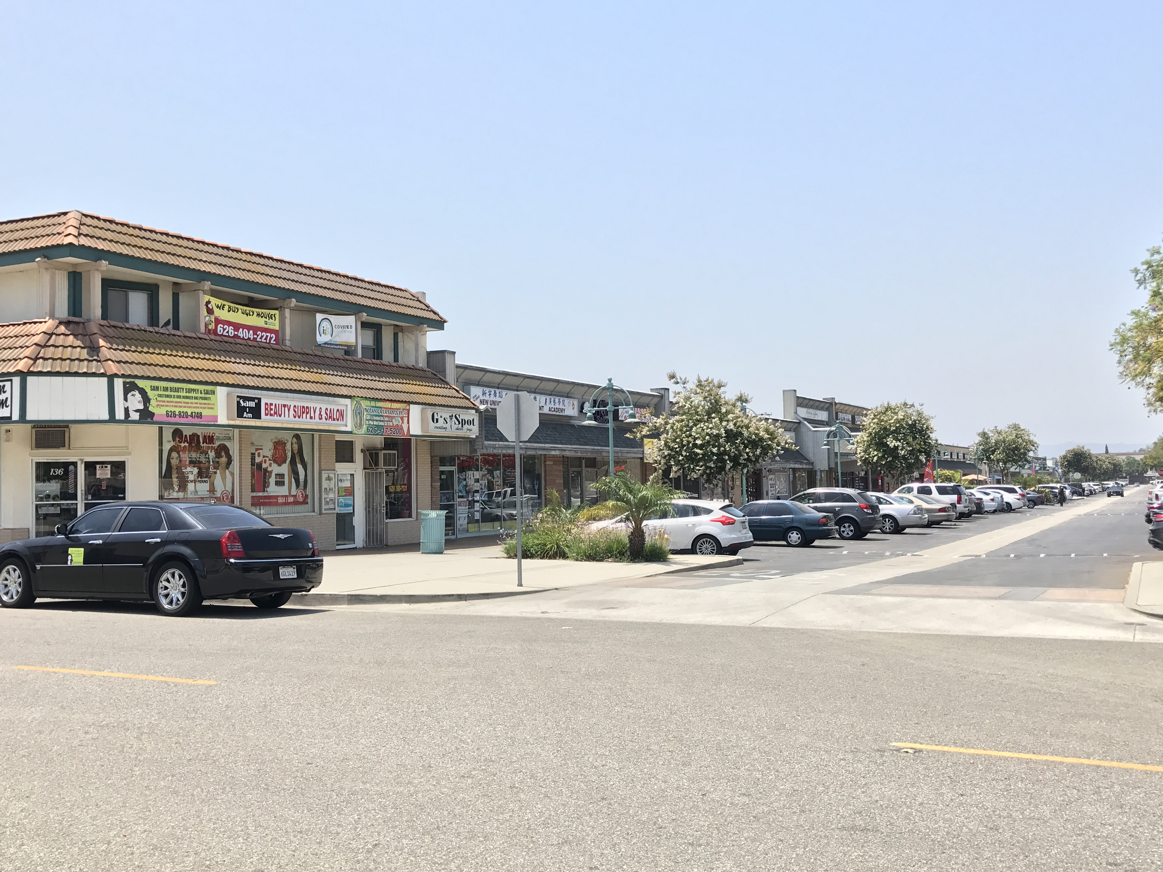 Old Towne West Covina